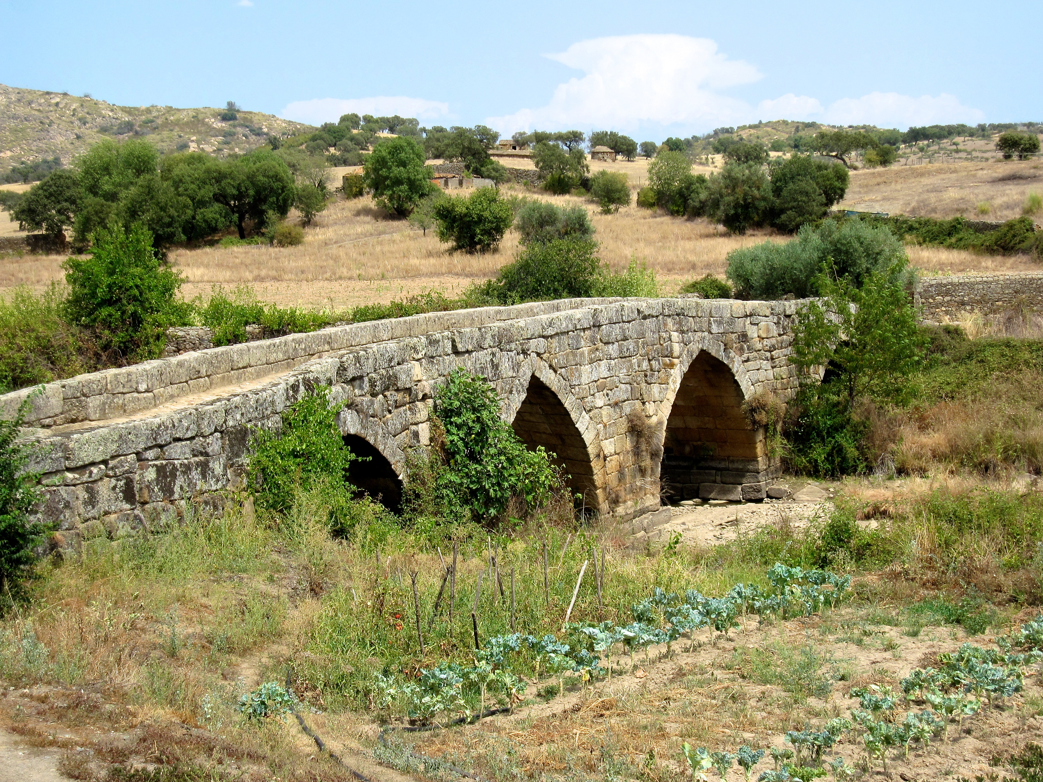 This file was uploaded for Wiki Loves Monuments in Portugal with the unique identifier 73340.